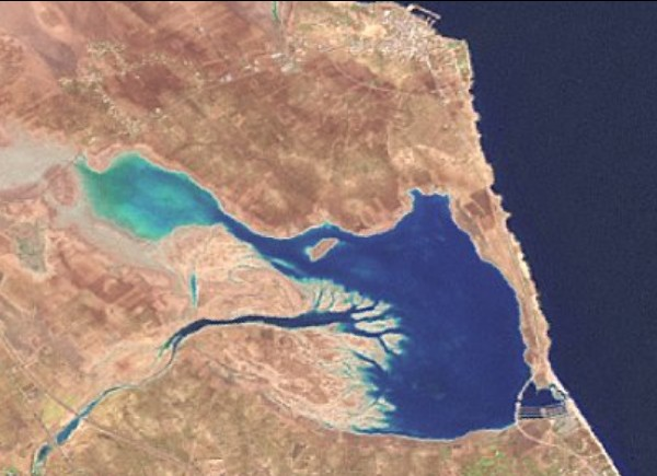 Satellite image of the Sebkha Halk El Menzel, Sousse, Tunisia